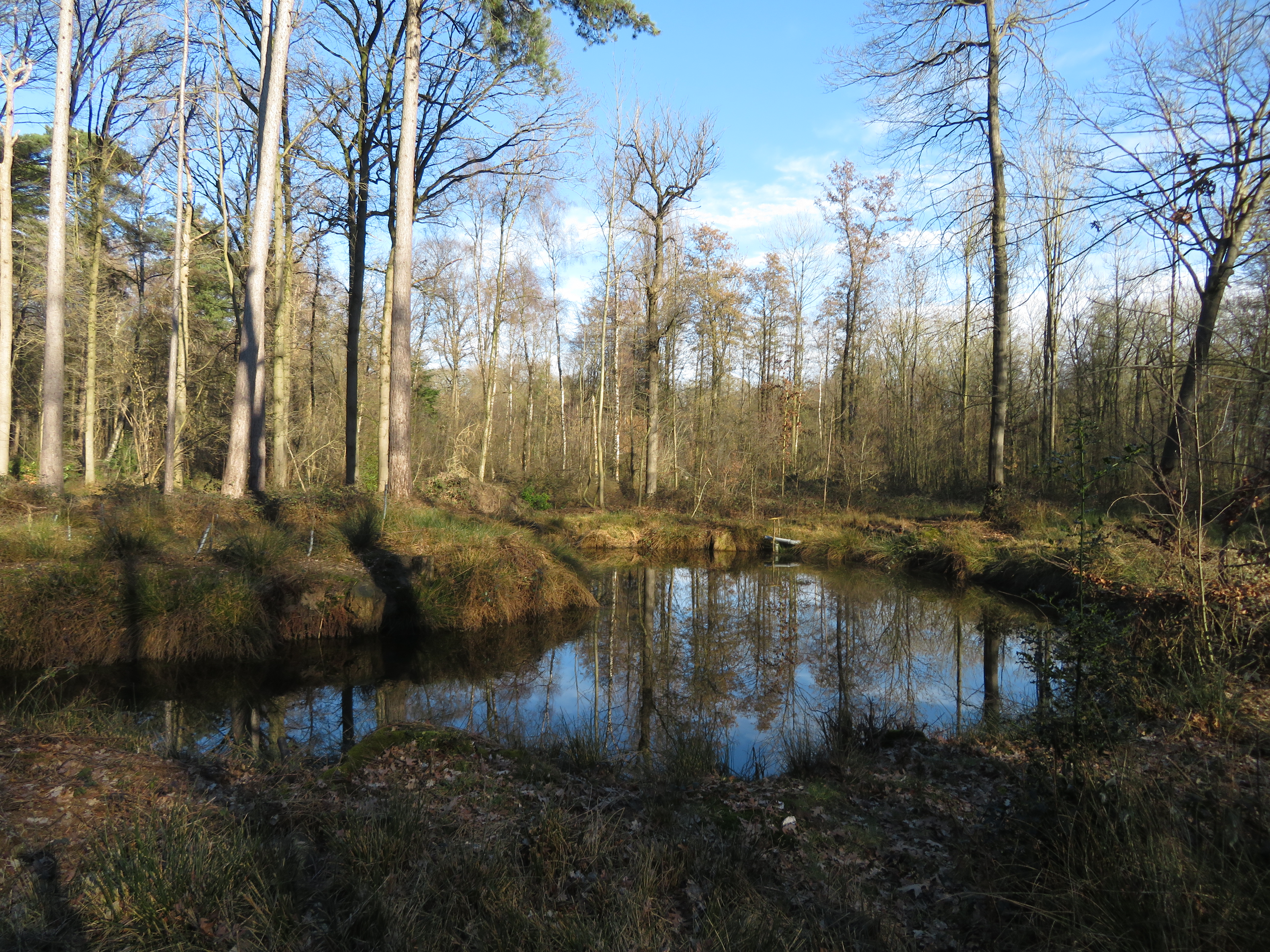 20190224 Groenhovebos